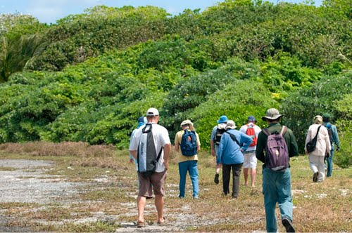 Pulu,Park,keeling,okeanian,australian